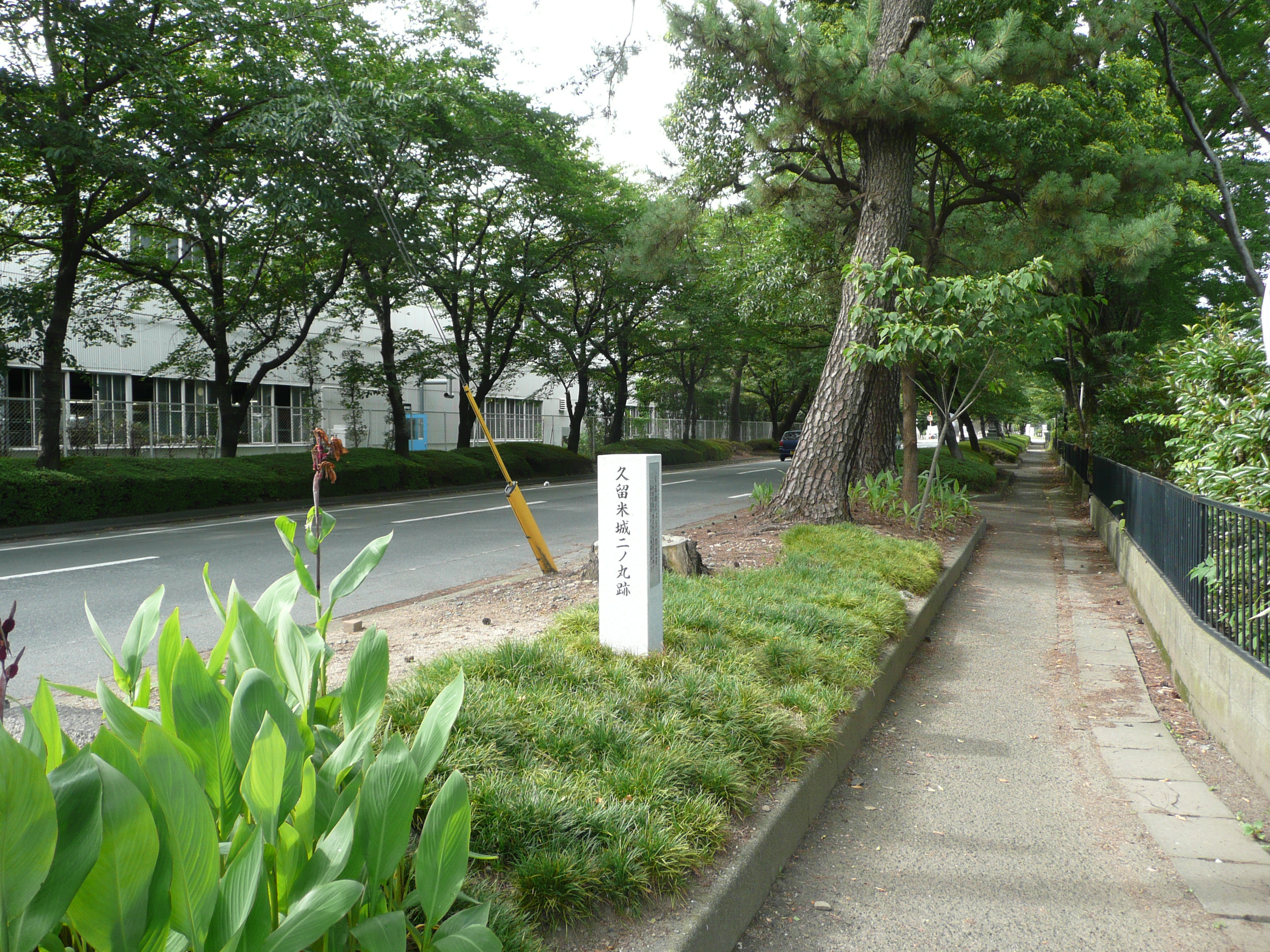 久留米城の二の丸